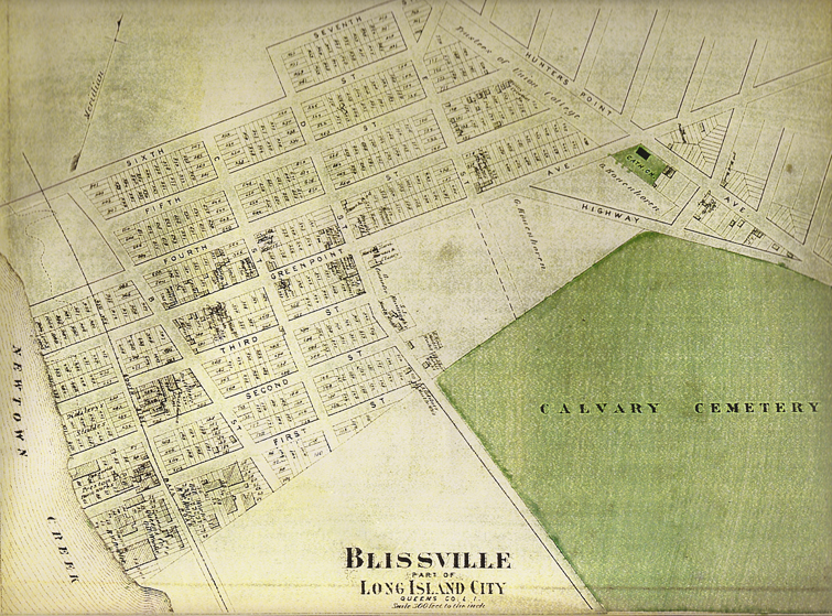 Belcher Hyde map of Blissville, Queens, early 1900s.